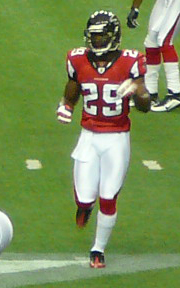 If used somewhere other than Wikipedia, Nelson, by name.